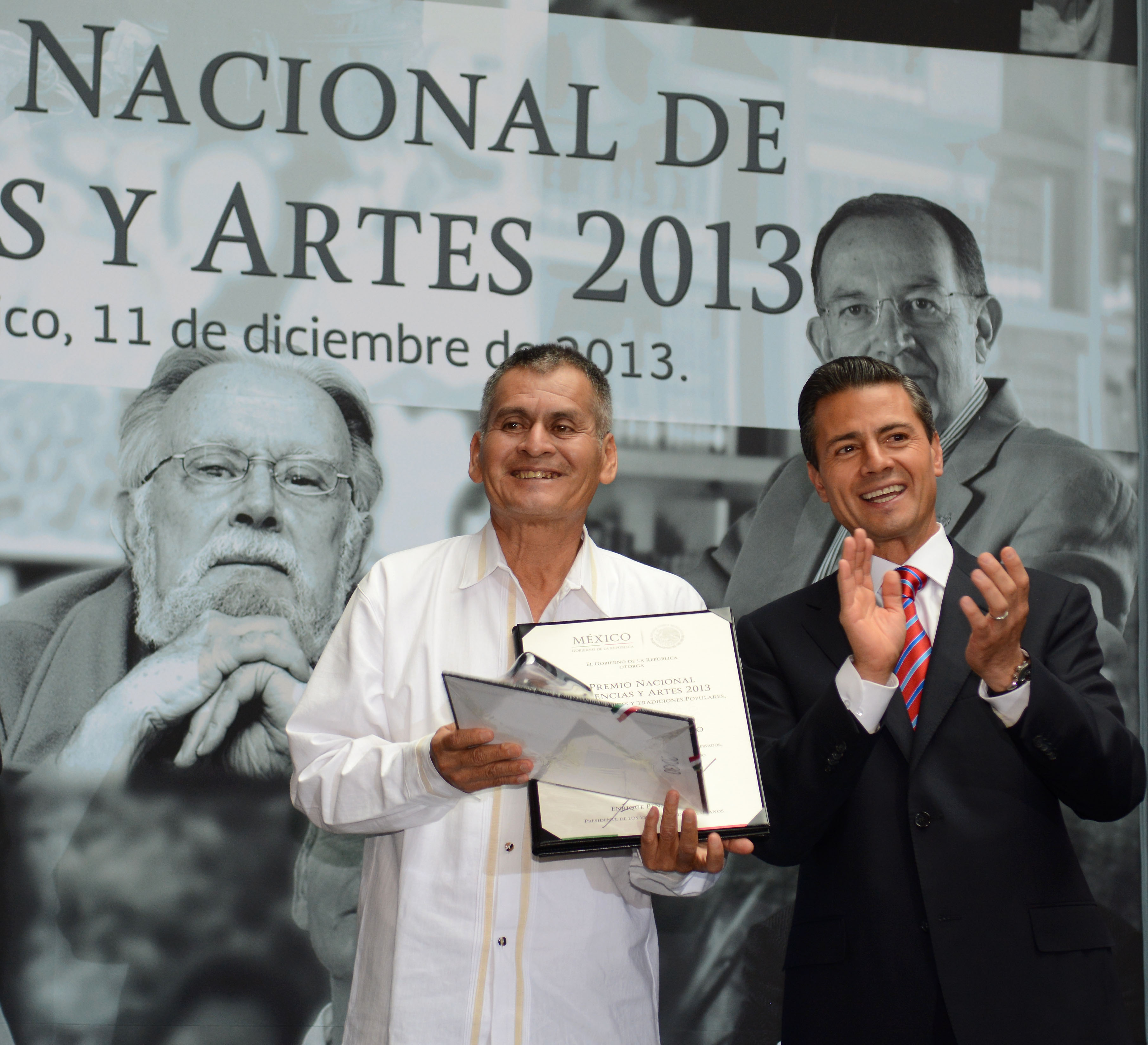 Science and Art National Prize 2013. National Palace. Mexico City. 10 December, 2013.